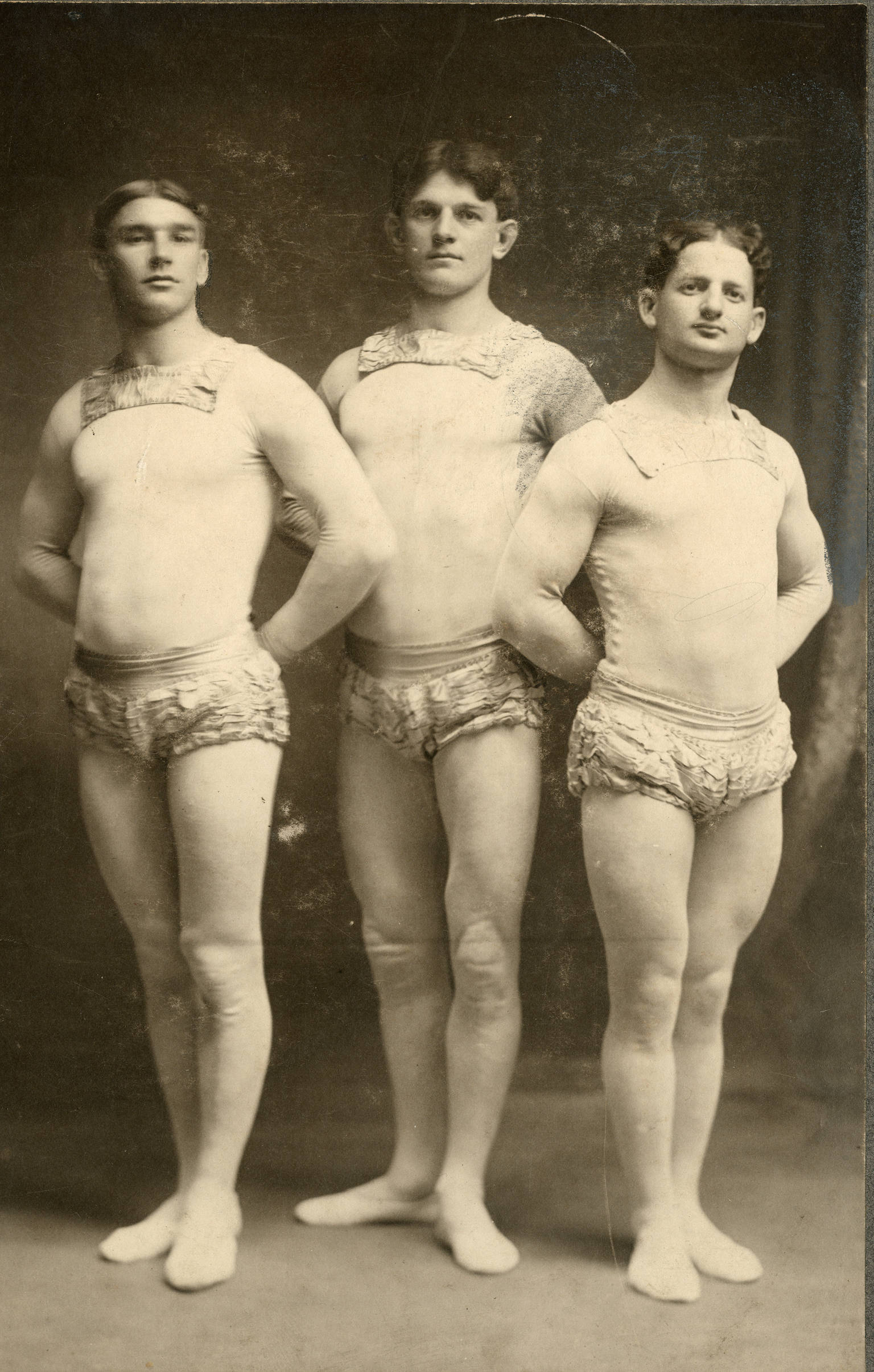 The Brothers Mardo, who performed with Gorton's Minstrels, who opened Sept. 3, 1904, at the Grand Opera House, Seattle. Subjects: minstrels and minstrel shows, minstrels and minstrel shows